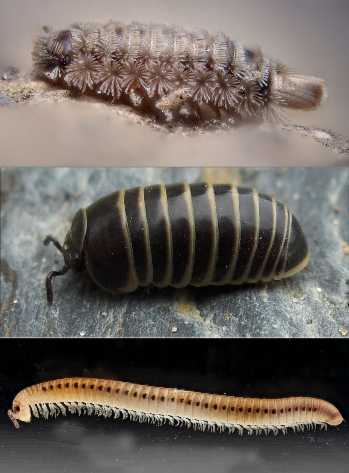 Representatives of three major body types of millipedes. Top: Penicillata (Polyxenus lagurus). Middle: Pentazonia (Glomeris marginata). Lower: Helminthomorpha (unknown Julidan).